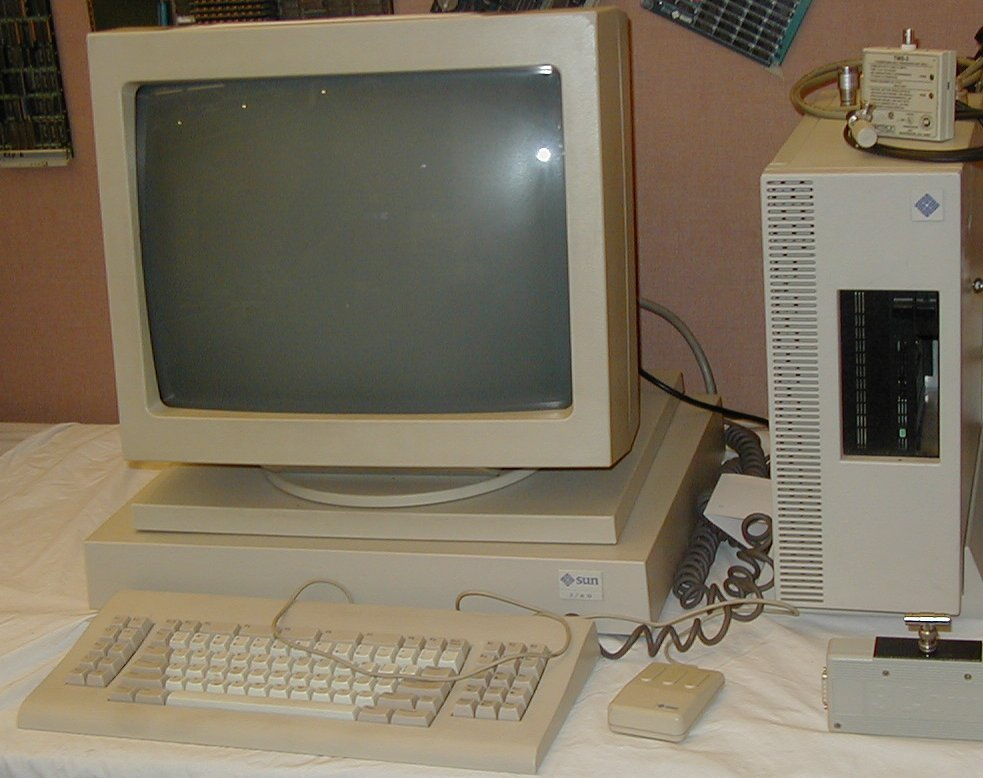 Sun 3/60 With Sun Disk and Tape "Shoebox" Photo taken by Robert Harker (me), October 2003